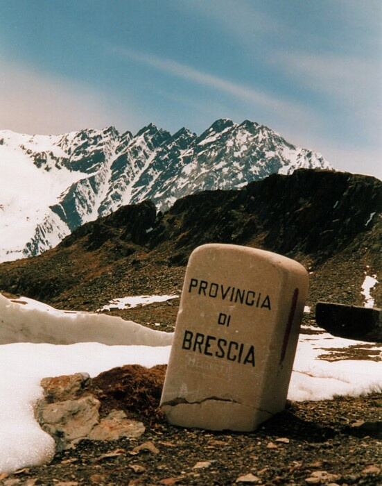 Passo Gavia, 2621 m. Picture taken by user:Idéfix, june 2001